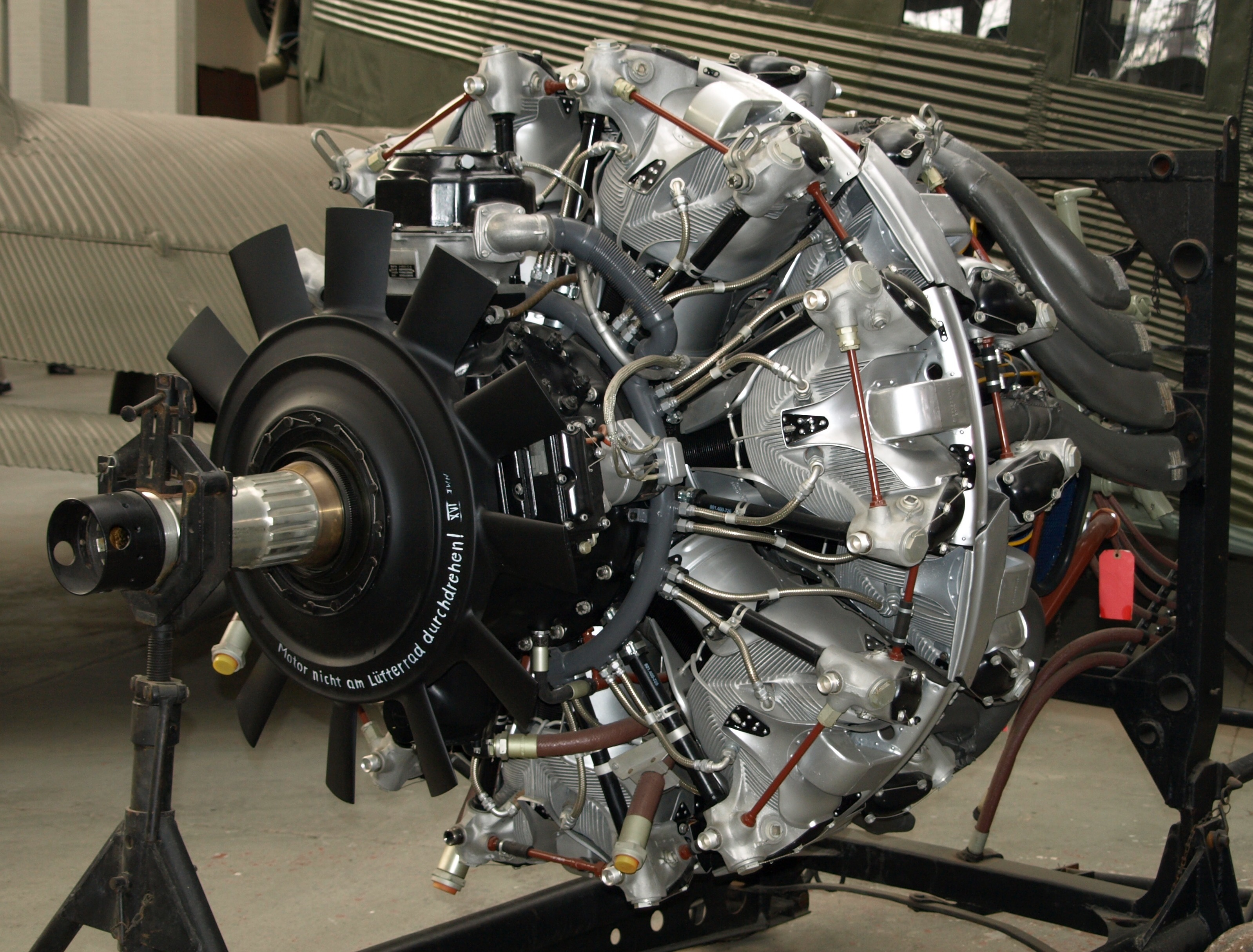 BMW 801D aero engine on display at the Imperial war Museum, Duxford.